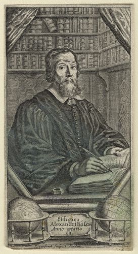 Portrait of Alexander Ross (1590-1654).